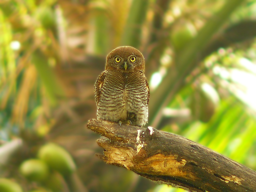 Often seen in the backyard but usually in the cooler months. This was clicked in the morning a few days back with the sun behind the bird. These owlets are mainly active at dawn and dusk, but are known to call and fly during daytime as well. The call is distinctive and consists of an increasingly rapid series of prao..prao.prao-prao-prao that rises and fades in volume to end abruptly. When detected, they are often mobbed by drongos, treepies and sunbirds. I have seen one being driven off by a White-throated Kingfisher as they are rivals lookng for similar prey. Their small size and dark brown barred with white plumage makes them appear like a dead tree stump thus offering them excellent camouflage. They perch on branches that offer a good view of the surroundings and are often seen closely scanning the ground for prey. Diet consists of insects, small birds, reptiles and rodents.